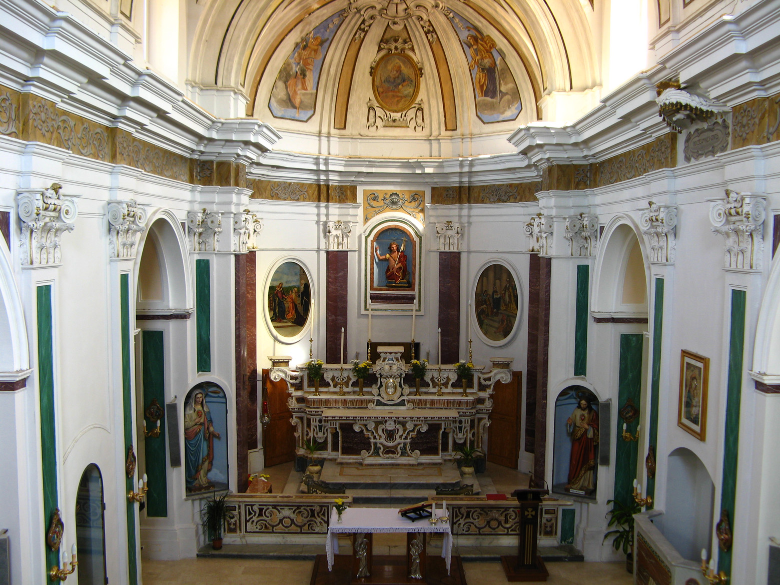 Soveria Mannelli, Italy, San Giovanni, Apsis and Altar (Allievi di Cosimo Fanzago, 17th century, Italian national monument)